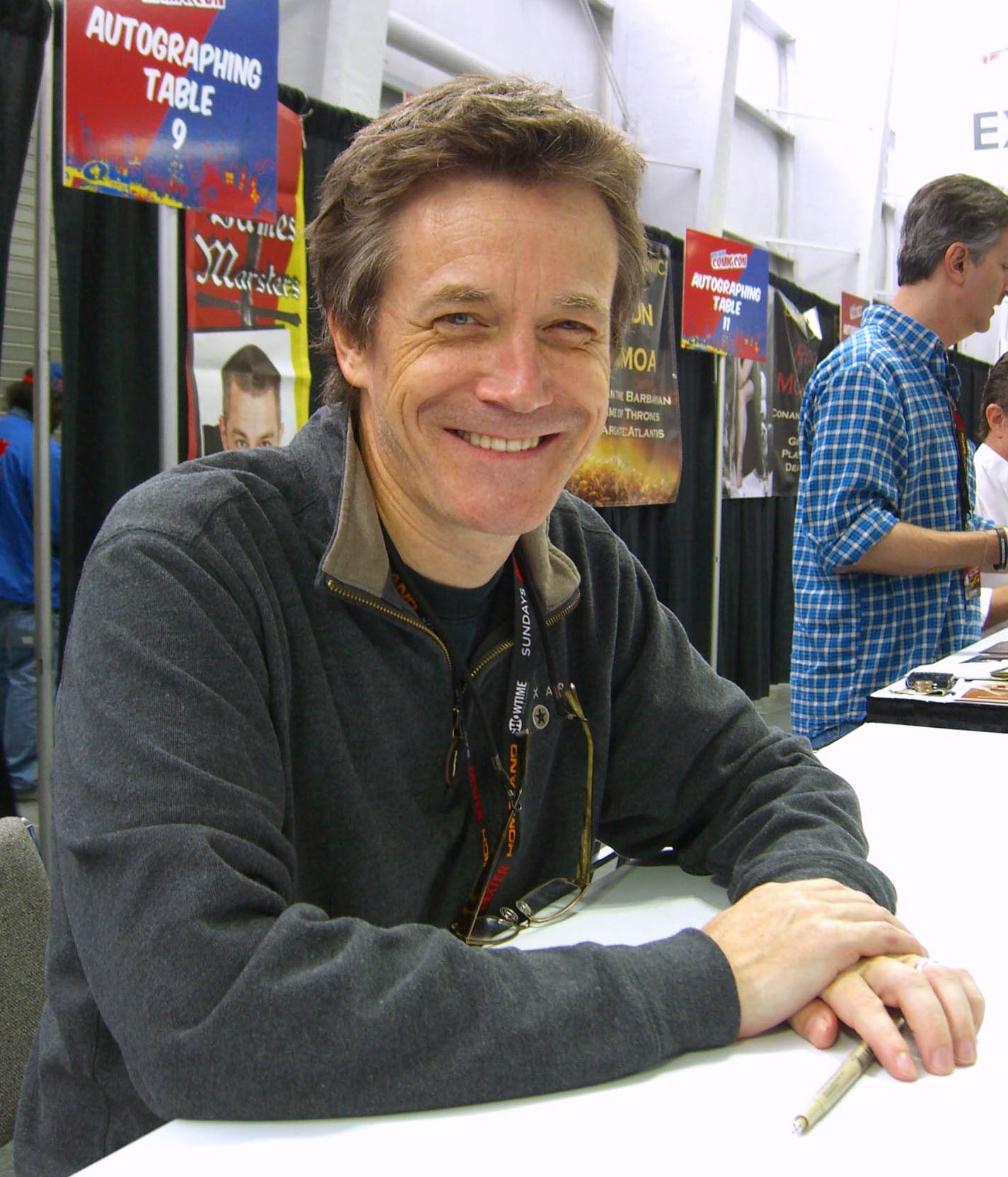 Comics creator Bill Amend during an October 16, 2011 appearance at the New York Comic Con in Manhattan. This photo was created by Luigi Novi. It is not in the public domain, and use of this file outside of the licensing terms is a copyright violation.